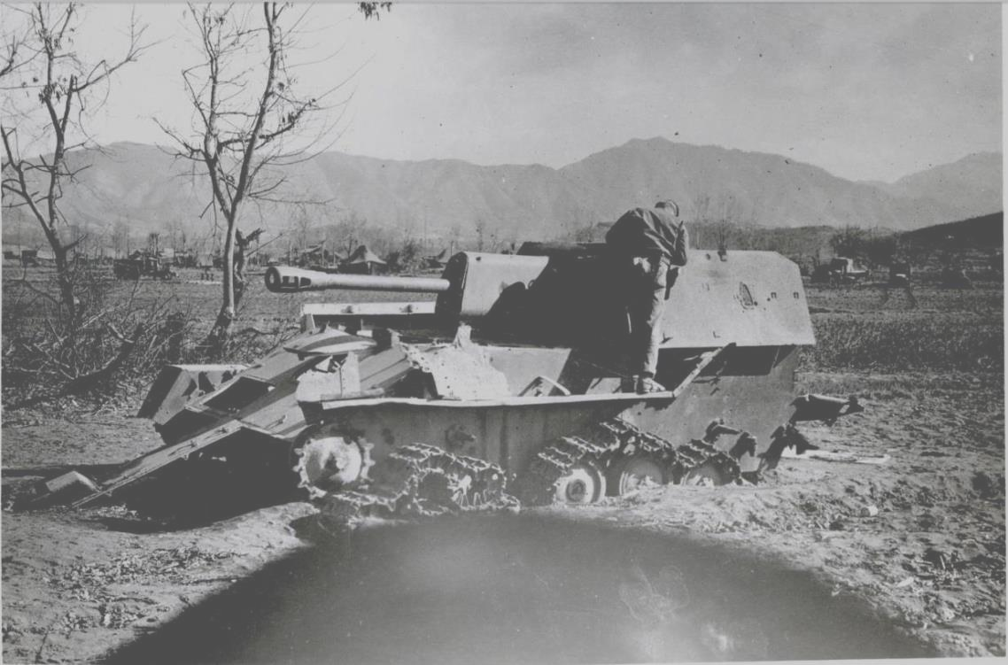 ‘The Battered Enemy Self-Propelled 76mm Gun was Destroyed North of Chunchon’ RG 127, 1st Marine Division Photographic Supplement, Apr. 1951, NARA